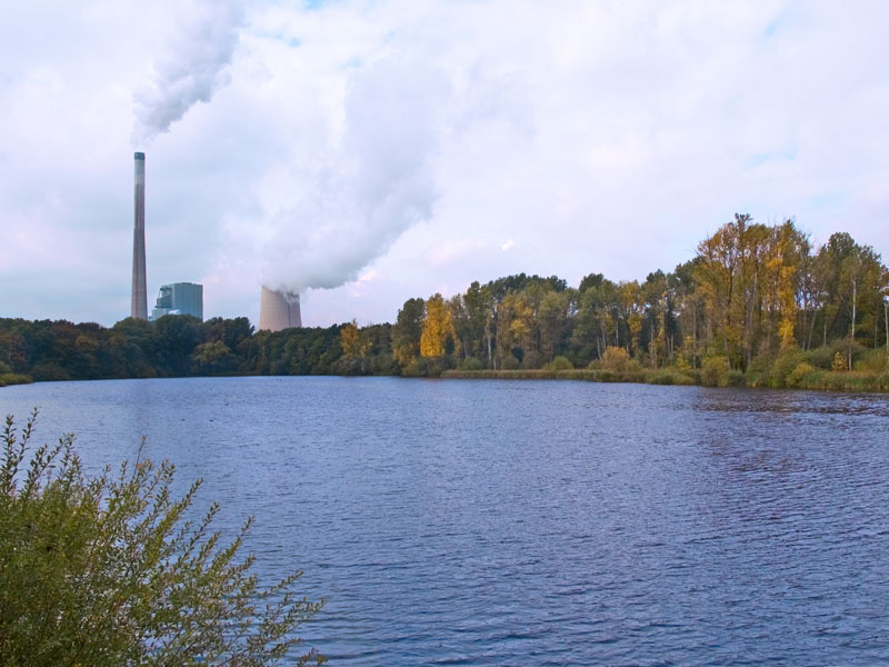 Germany, Bergkamen, Beversee